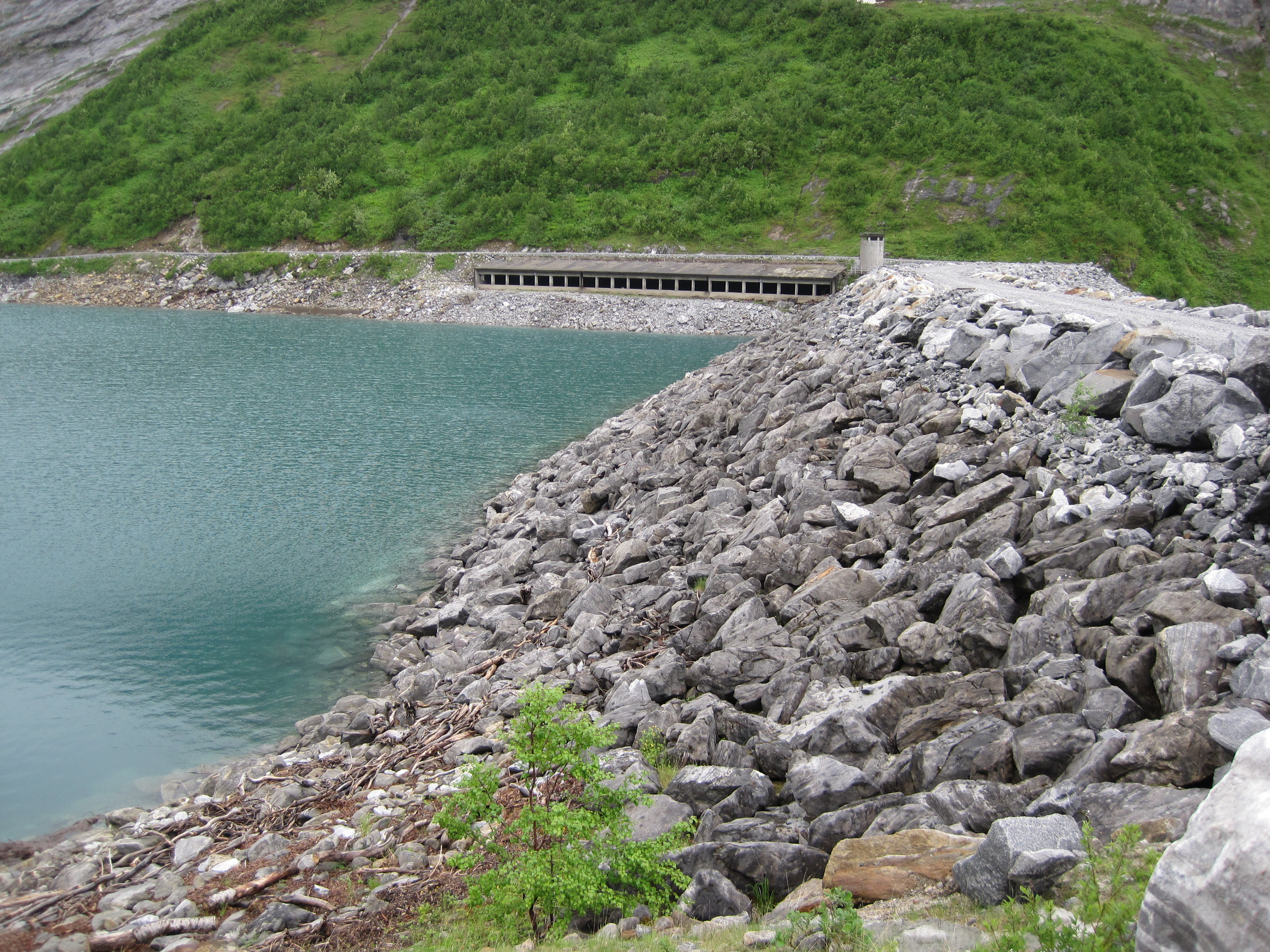 View from the top of the dam at Arstaddalen dam in Beiarn, Norway.